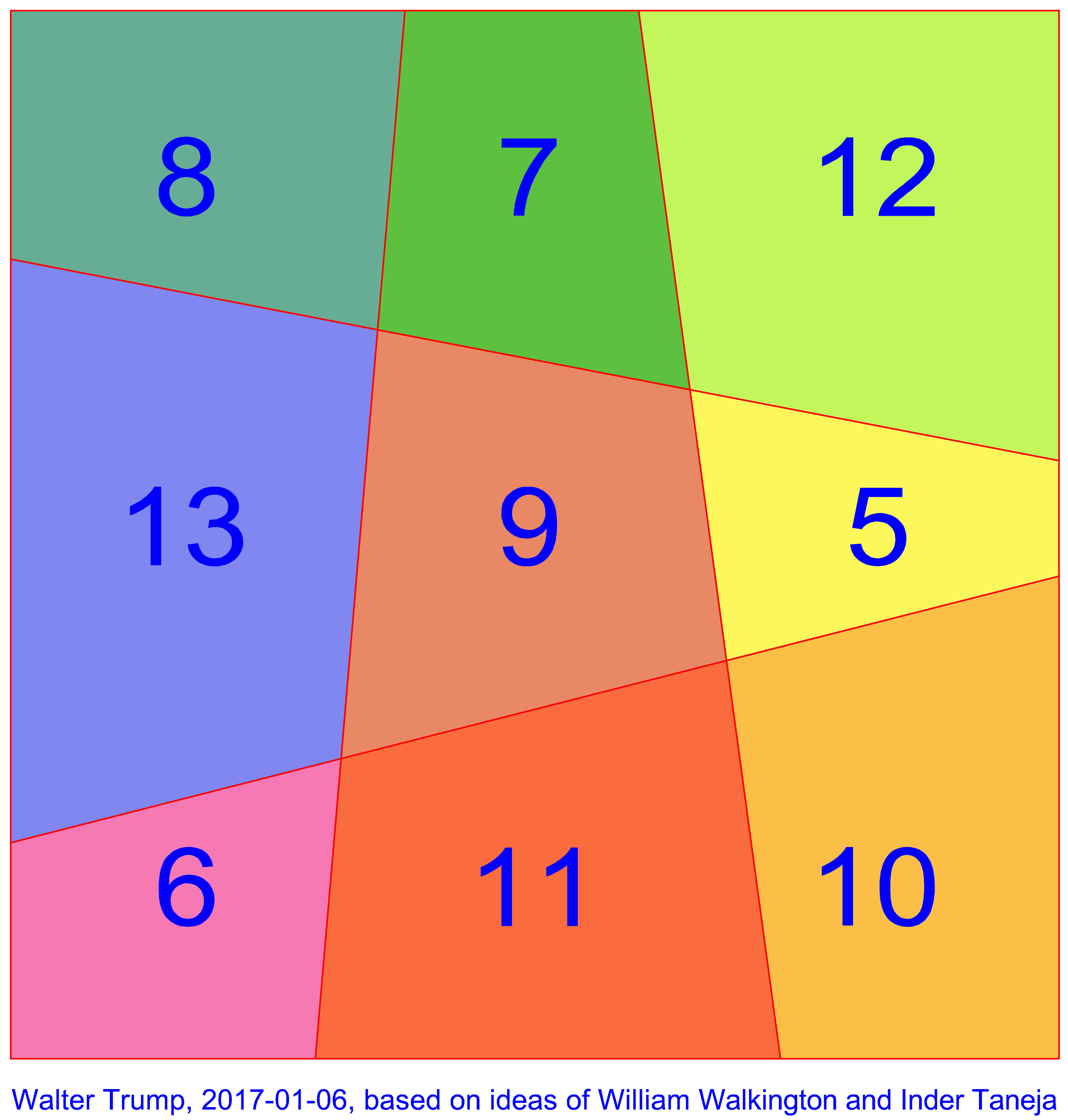 On the 6th January 2017, following initial ideas of William Walkington and Inder Taneja, this first linear area magic square was constructed by Walter Trump. The graphics are by William Walkington.